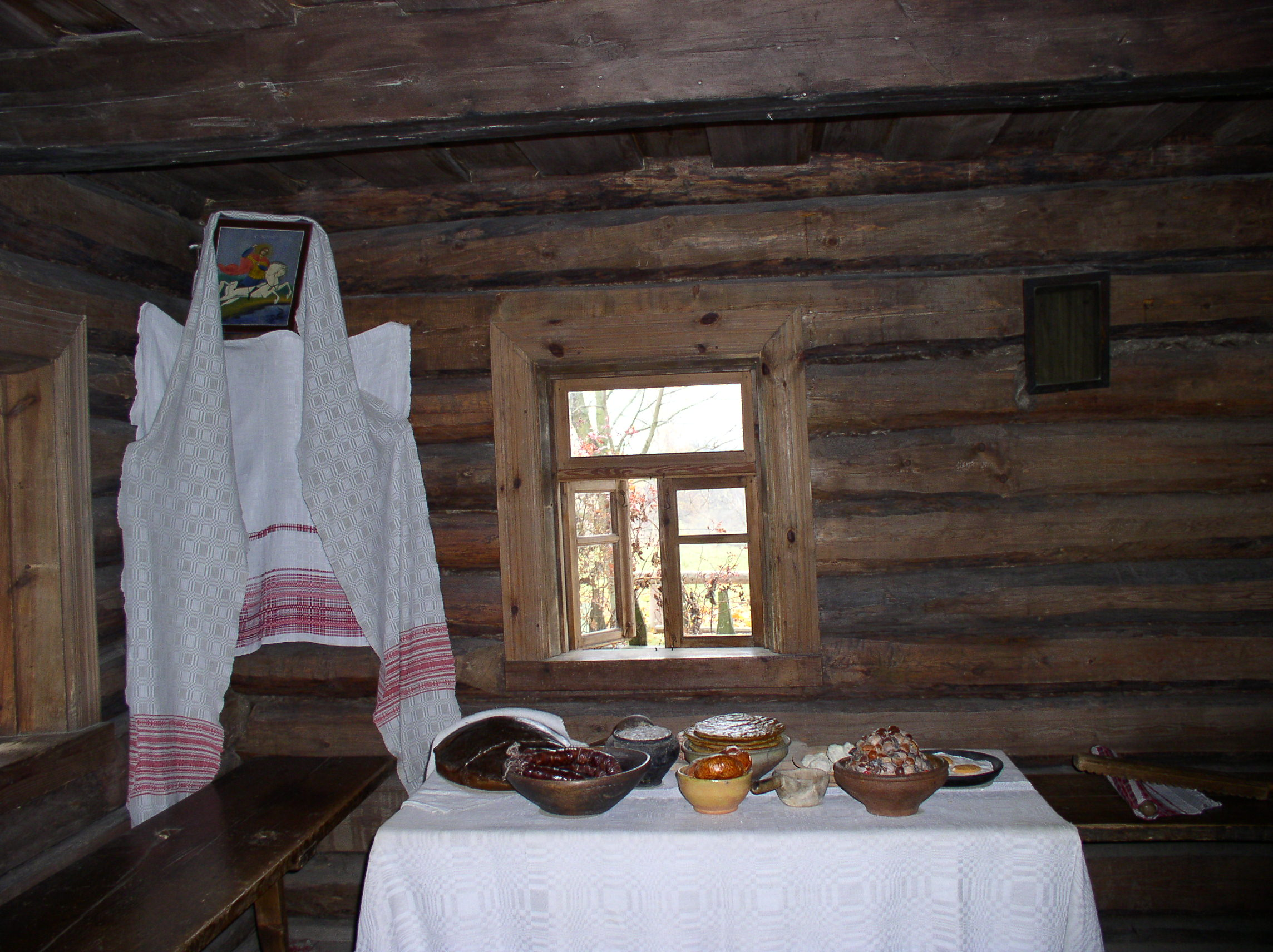 House interior. State museum of folk architecture and life, Belarus.